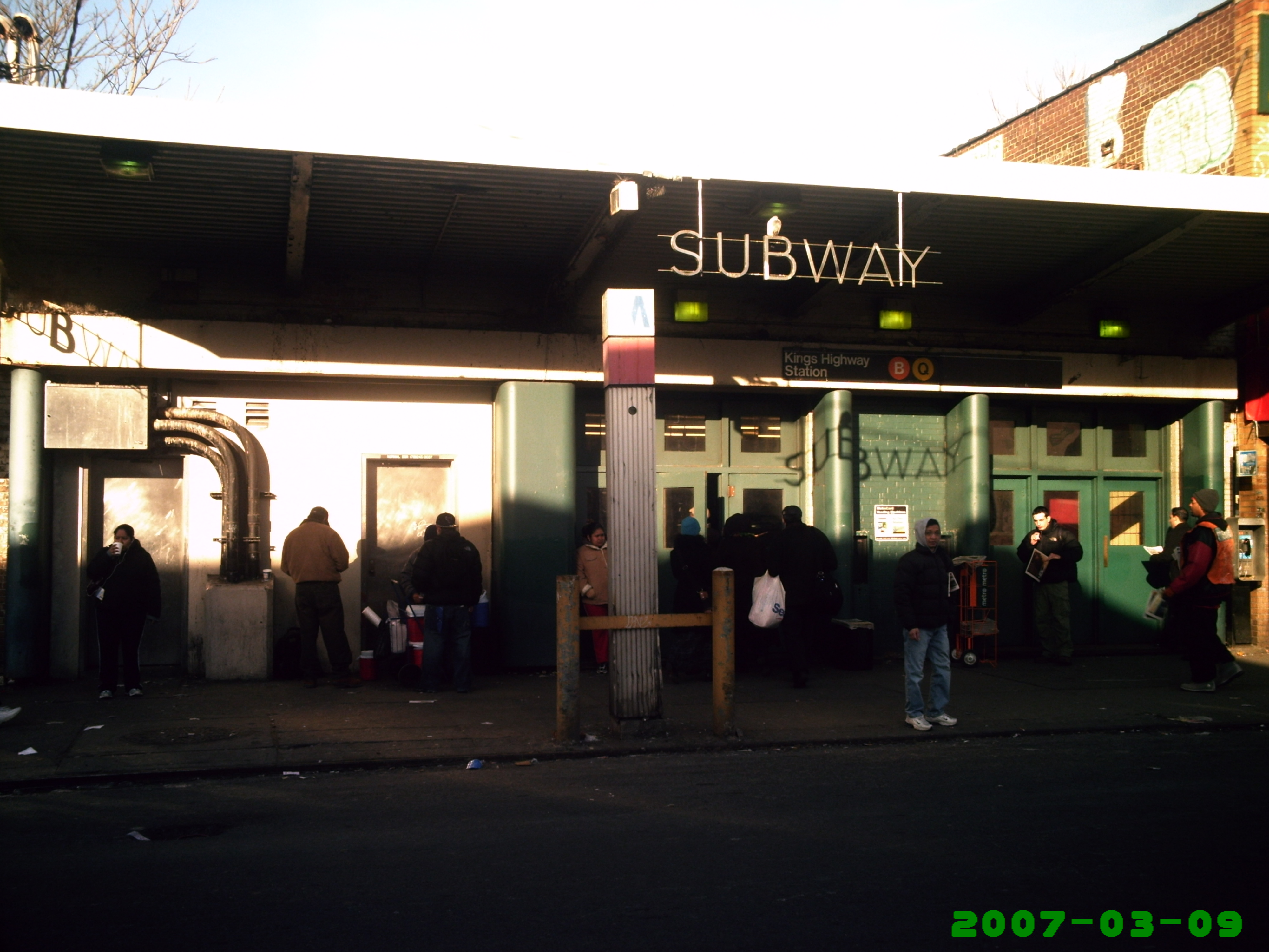 Entrance to Kings Highway station at Quentin Road